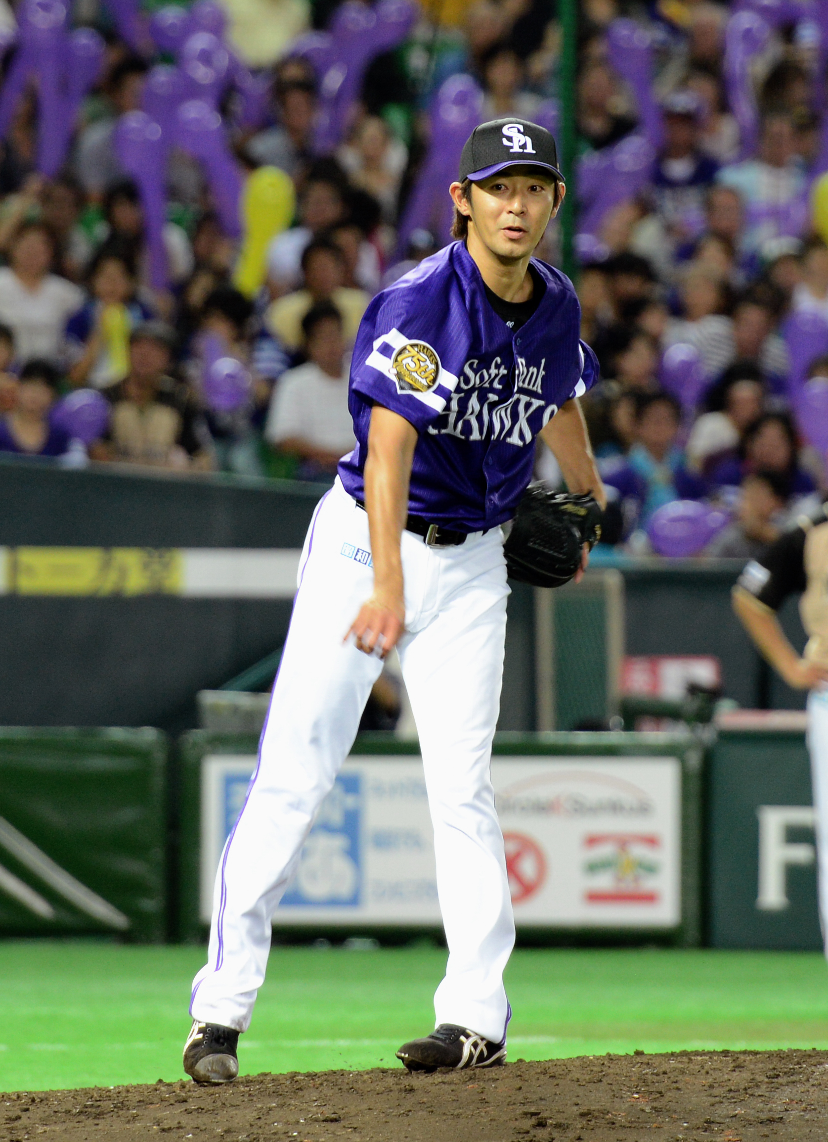 Shintaro Ejiri, pitcher of the Fukuoka SoftBank Hawks, at Fukuoka Dome.